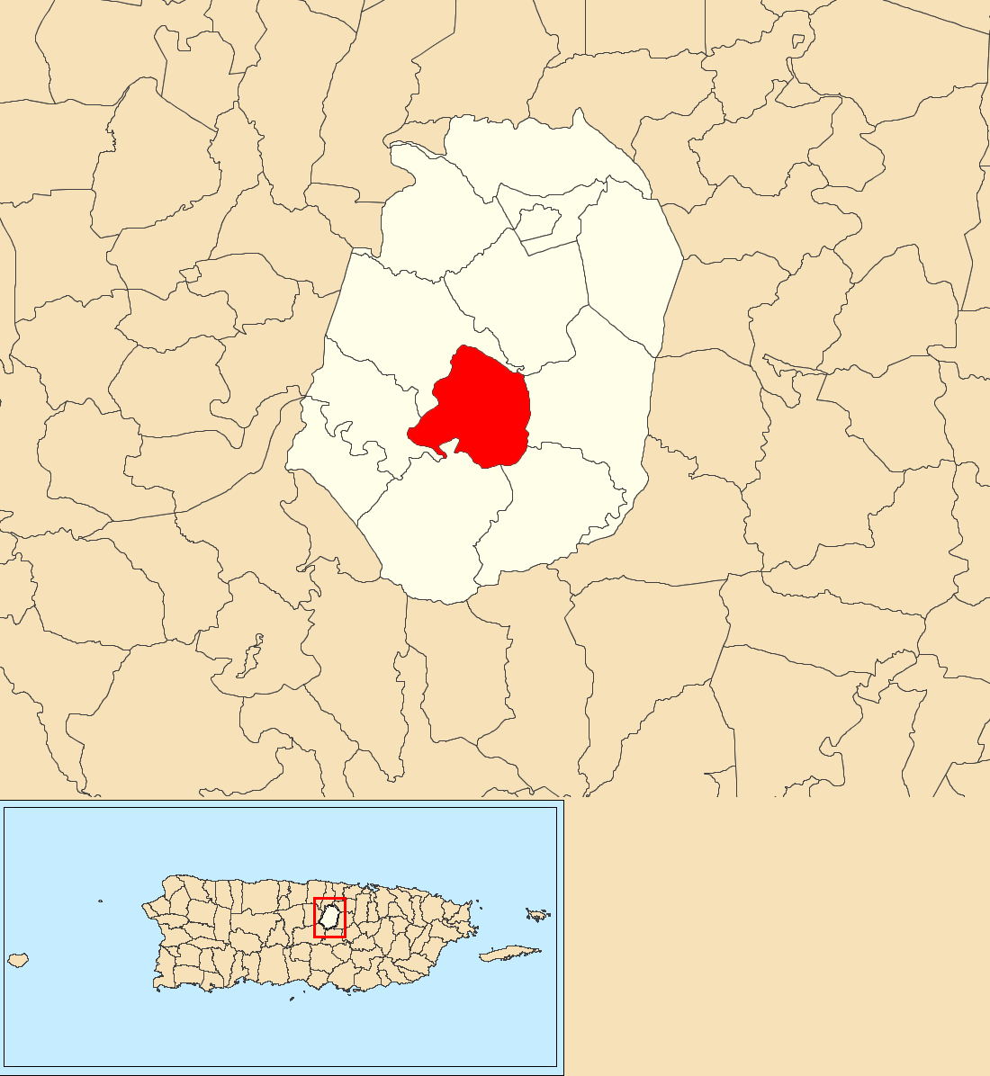 Negros, Corozal, Puerto Rico locator map